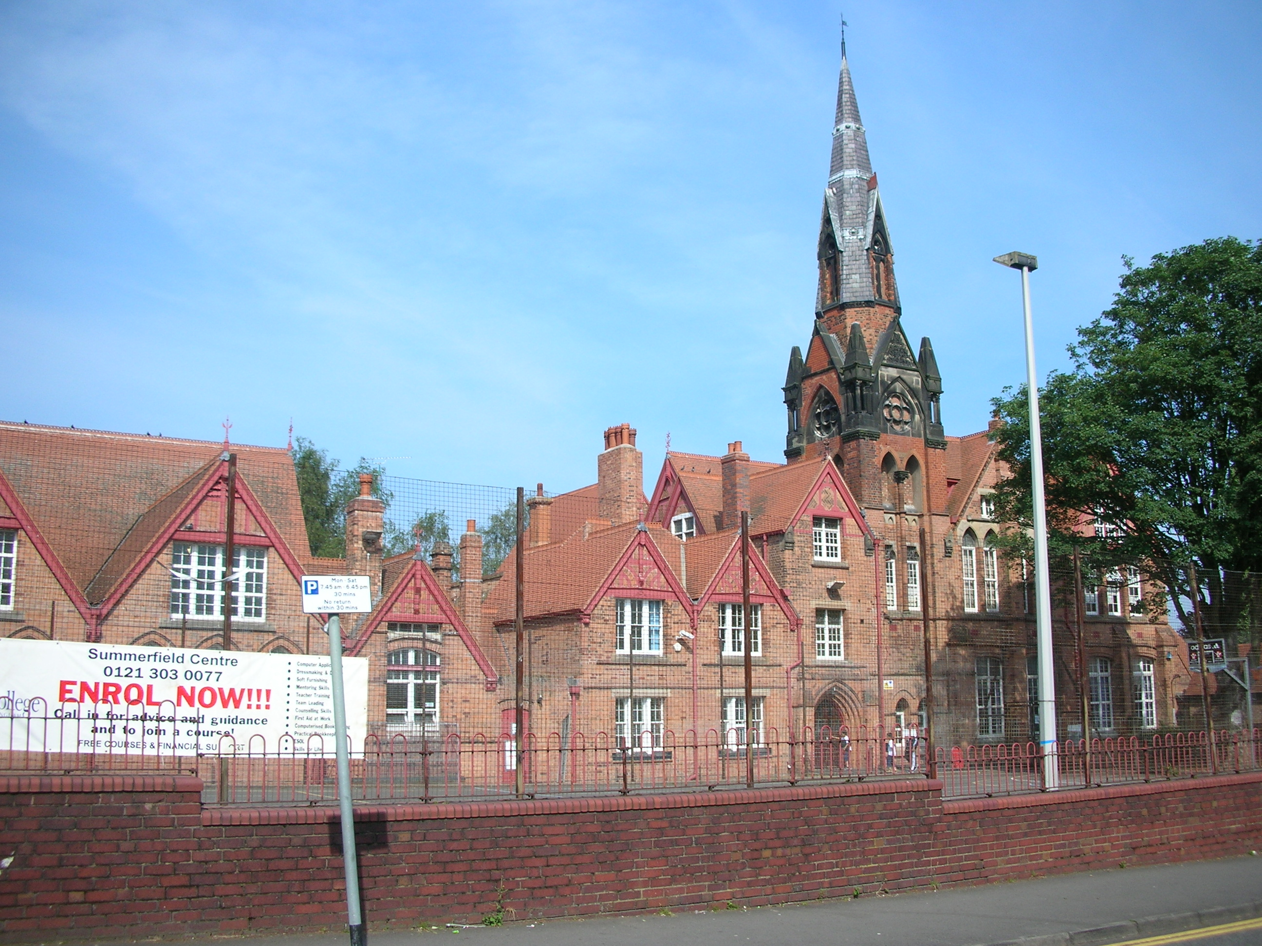 Summerfield Centre, Dudley Road, Birmingham, England. Formerly Dudley Road Board School, 1878 Martin & Chamberlain. Photographed by me. Oosoom